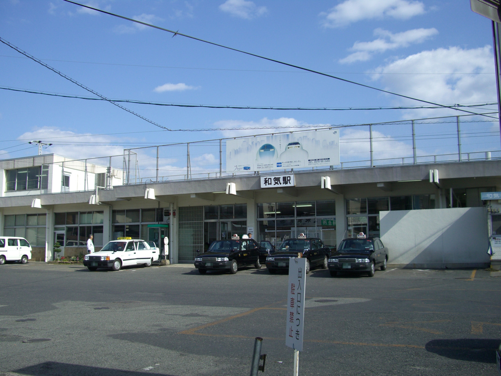 West Japan Railway Sanyo Main Line Wake Station Building 西日本旅客鉄道 山陽本線 和気駅 駅舎